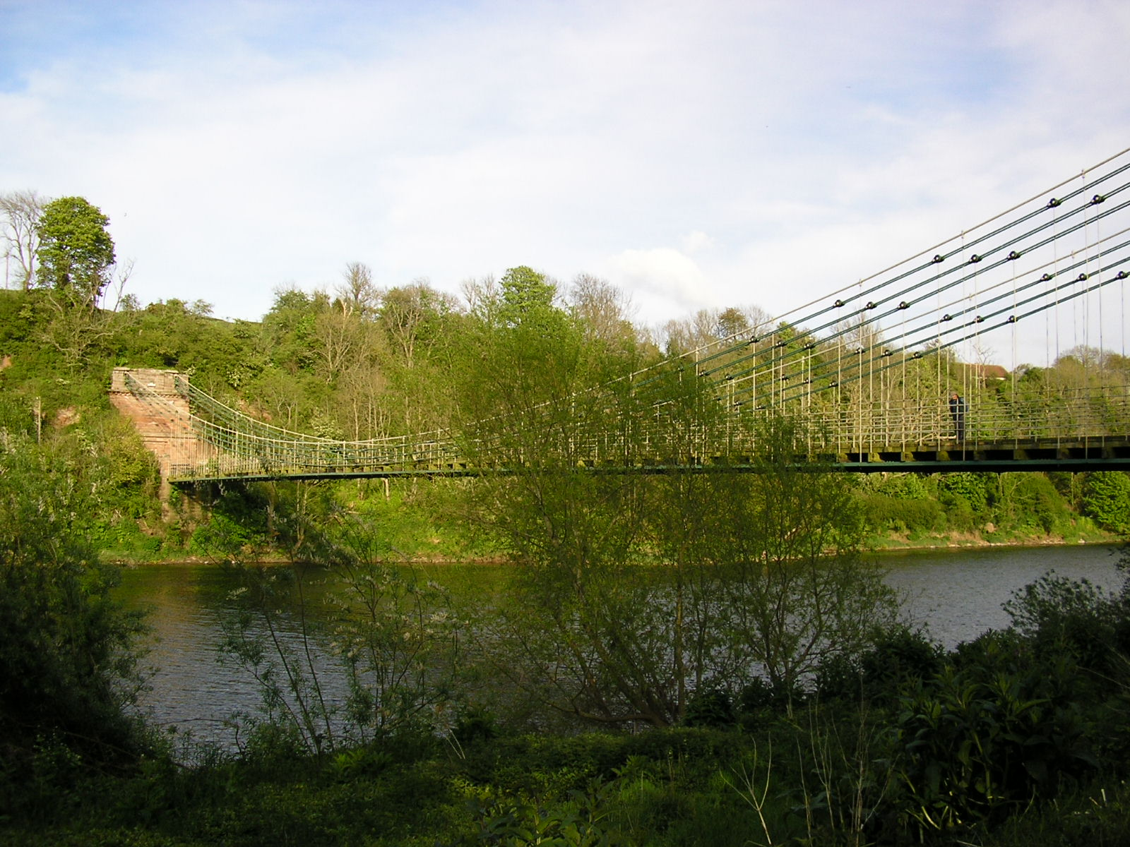 The Union Bridge over the River Tweed between England and Scotland. Viewed from the Scottish bank.